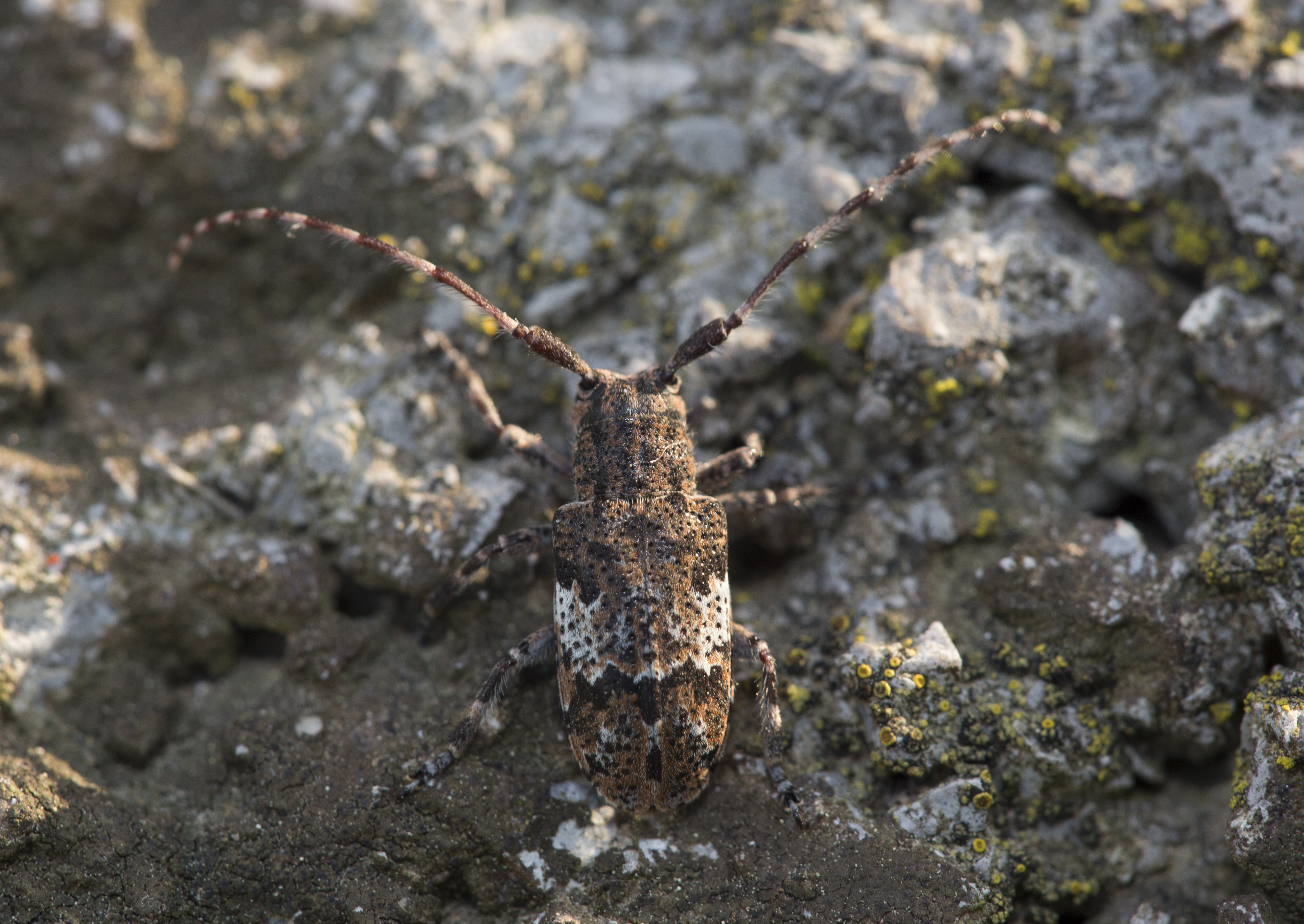 Cerambycid beetle Mesosa nebulosa, photographed near Vrhnika, Slovenia.